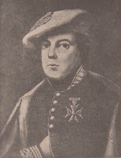 Ramón O'Callaghan